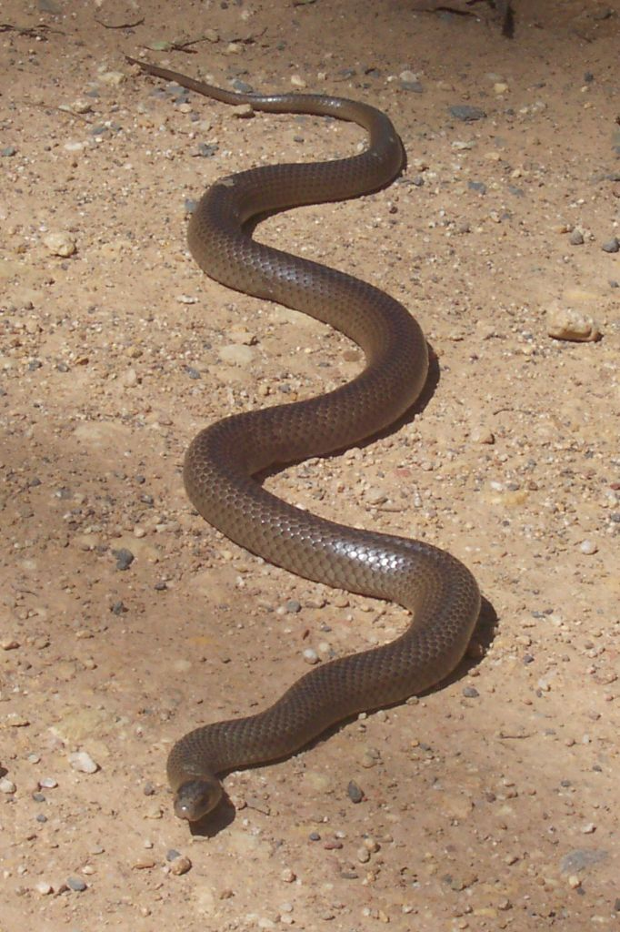 Large Eastern Brown Snake - Tamban Forest near Kempsey, estimated length 1.7 metres